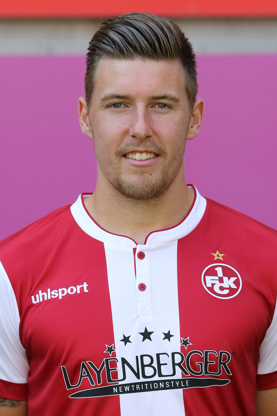 Christian Kühlwetter (Nr. 24)